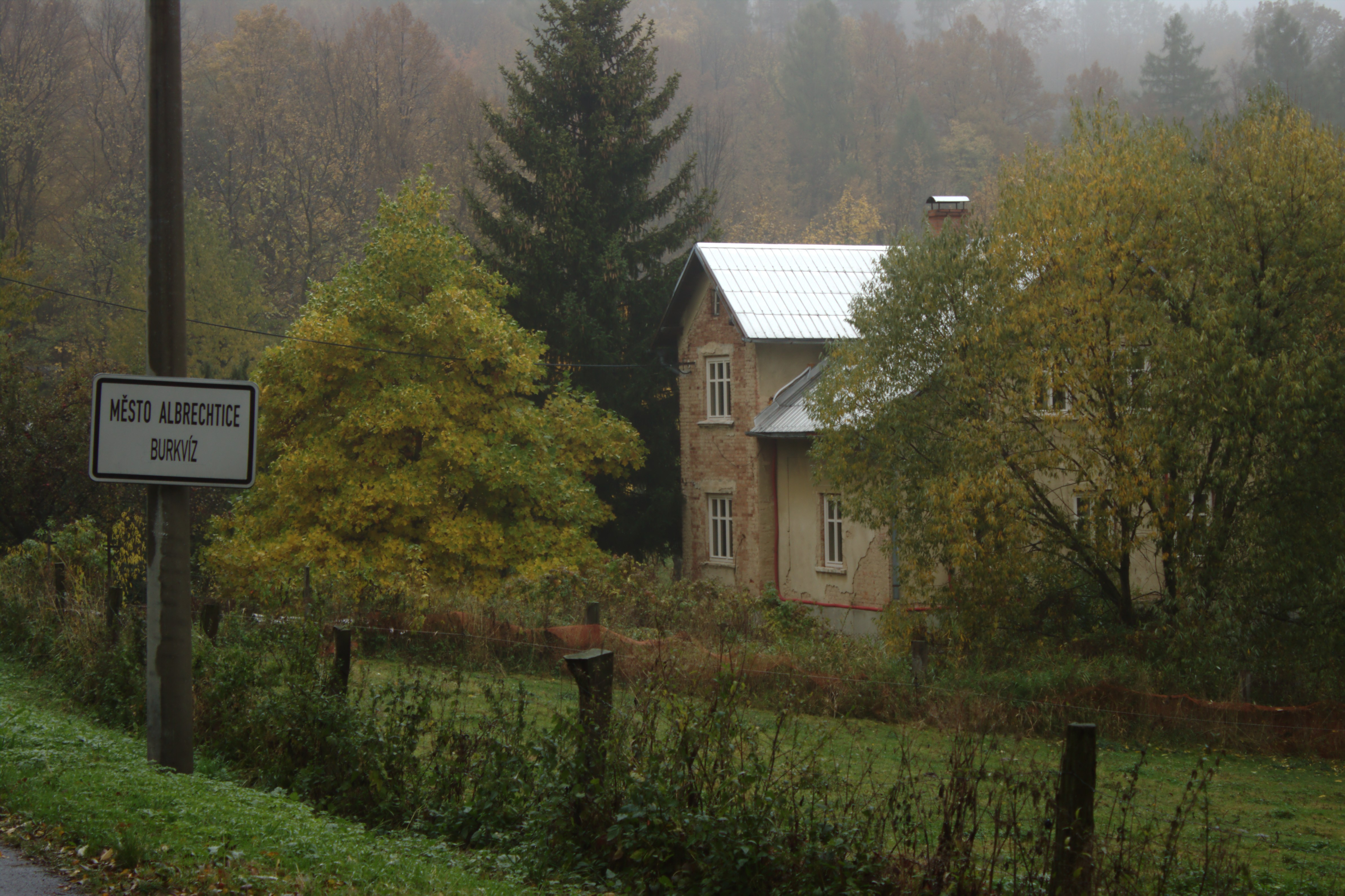 Northern edge of the village of Burkvíz, Moravian-Silesian Region, CZ